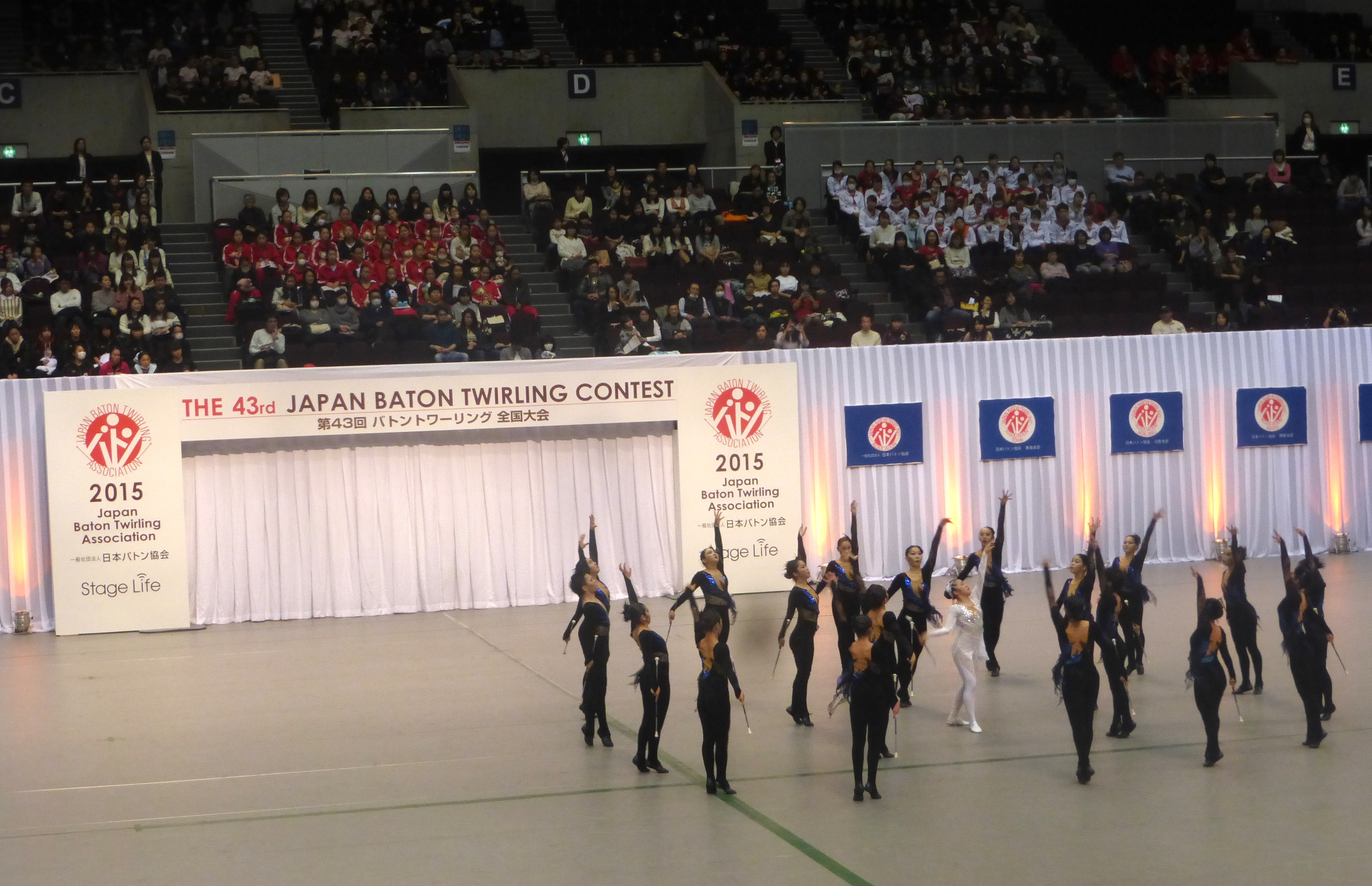 バトントワーリング全国大会、2015年 (Japan Baton Twirling Association, 2015)